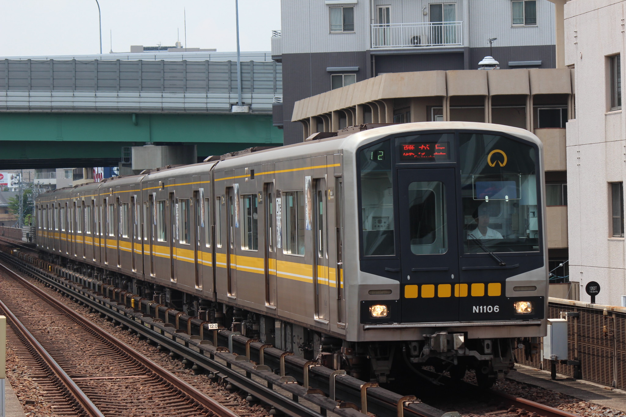 Nagoya Subway N1000 series EMU set N1106 approaching Kamiyashiro Station on the Higashiyama Line